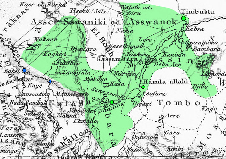 General outline (green) of ʿUmar Tal's Toucouleur Empire around 1864, near the empire's greatest extent, covering much of modern Mali, as well as parts of Guinea and Mauritania. Major capitals conquered in green, Major French forts in blue.Note: this is based on the outlines of previous (conquered) states supplied in the 1861 map, which displays information from the late 1850s.